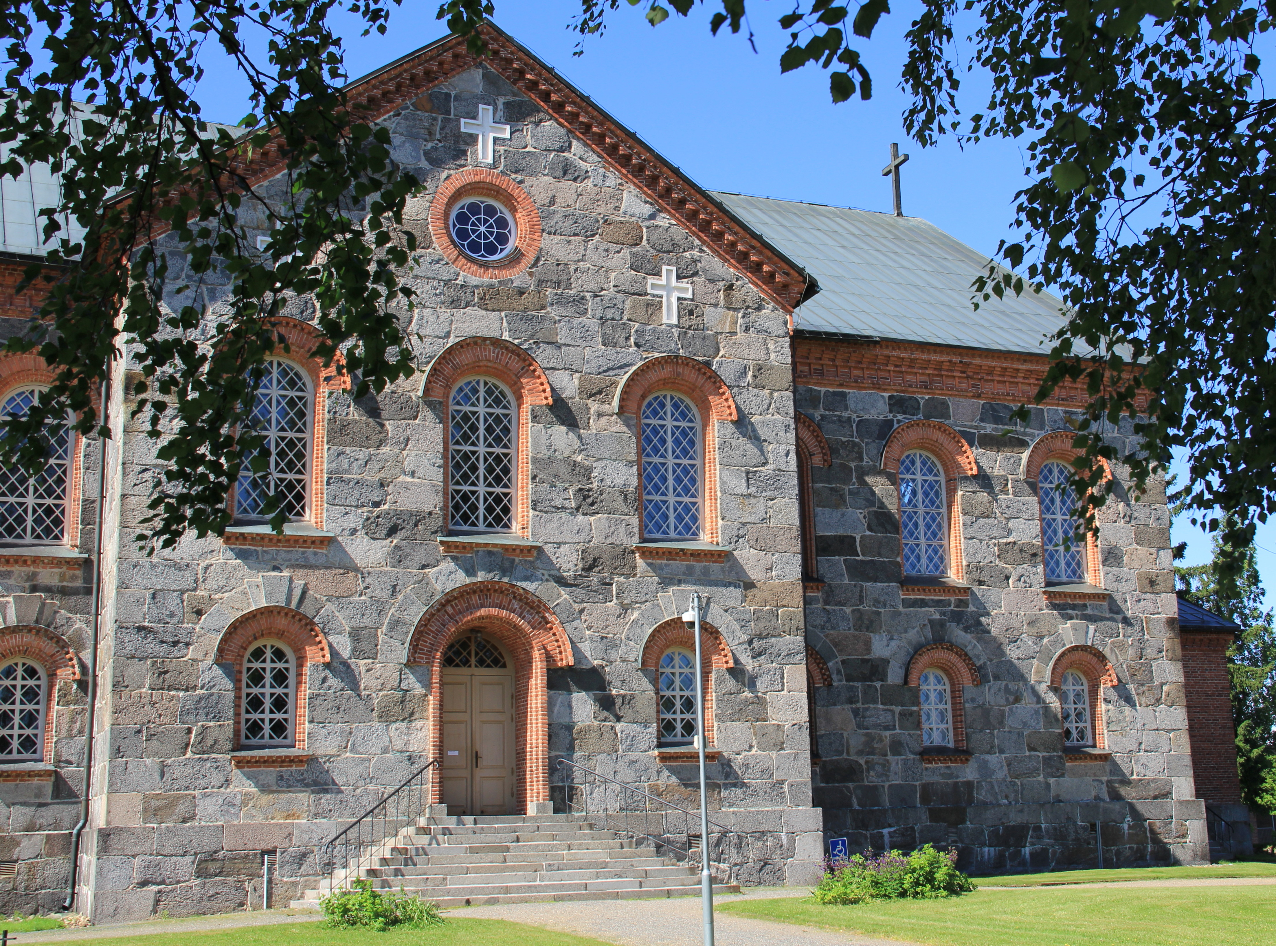 Juva church, Juva, Finland. - Stone church, designed by architects Ernst Lohrmann and Carl Albert Edelfelt. Completed in 1863. - Seen from southeast, sacristy far right.